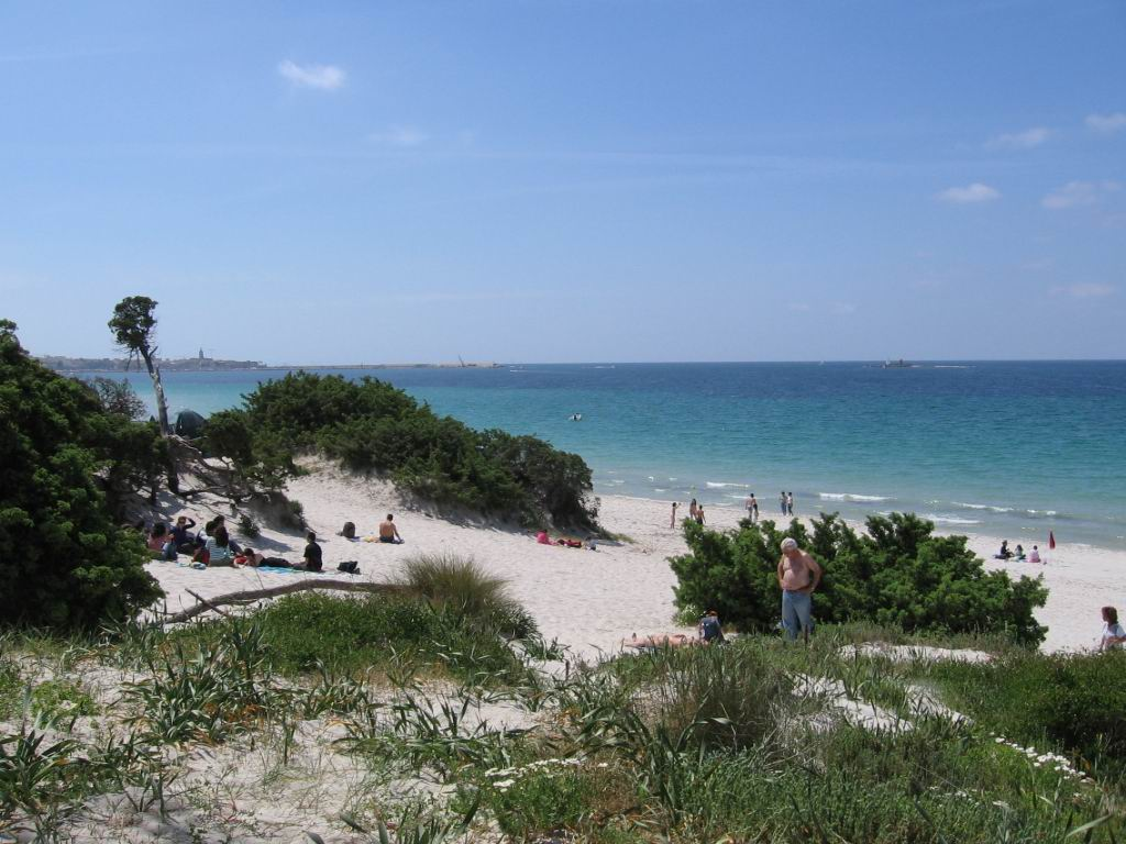 Alghero Beach, Sardinia, Italy. Foto: Mihai Sorin Sirbu